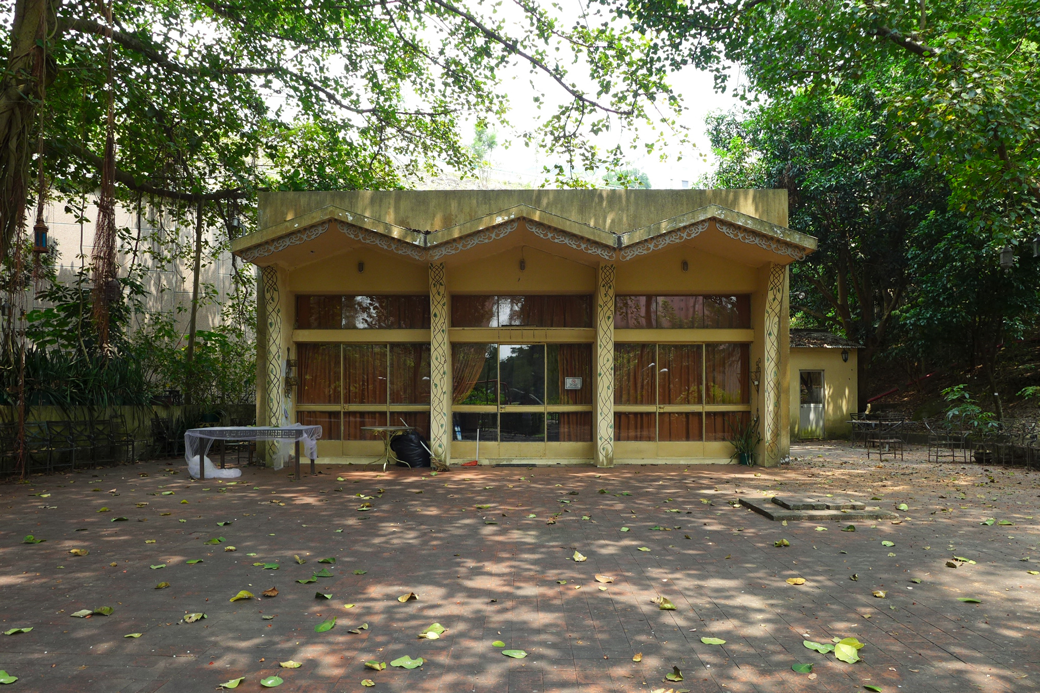 Perowne Camp Temple